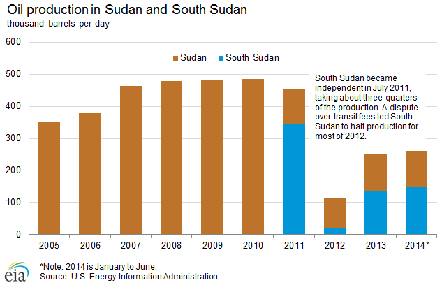 Production of crude oil in Sudan and South Sudan.